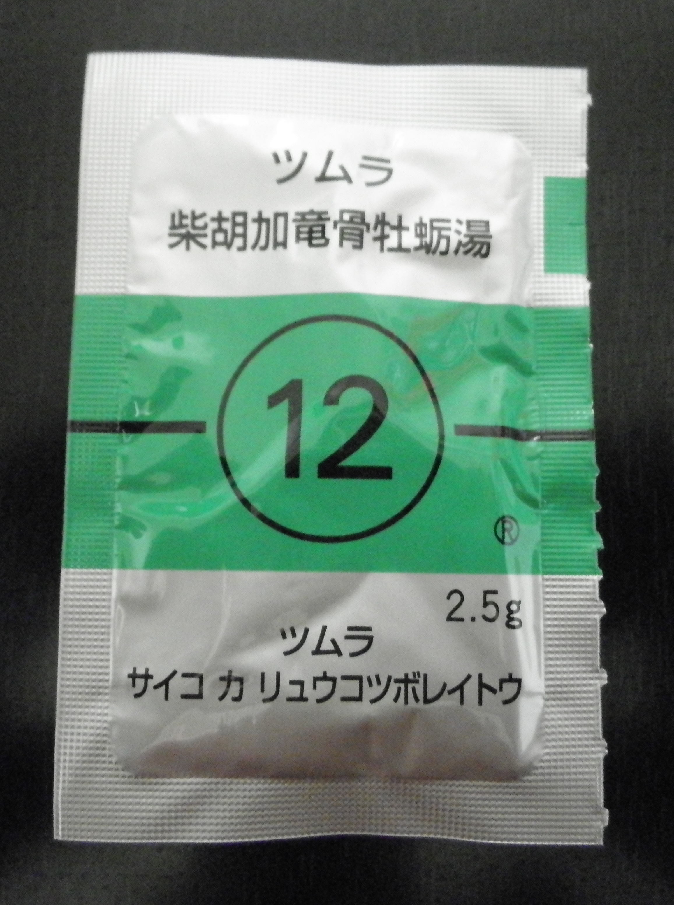 Chinese medicine whose name is Saikokaryukotuboreitou